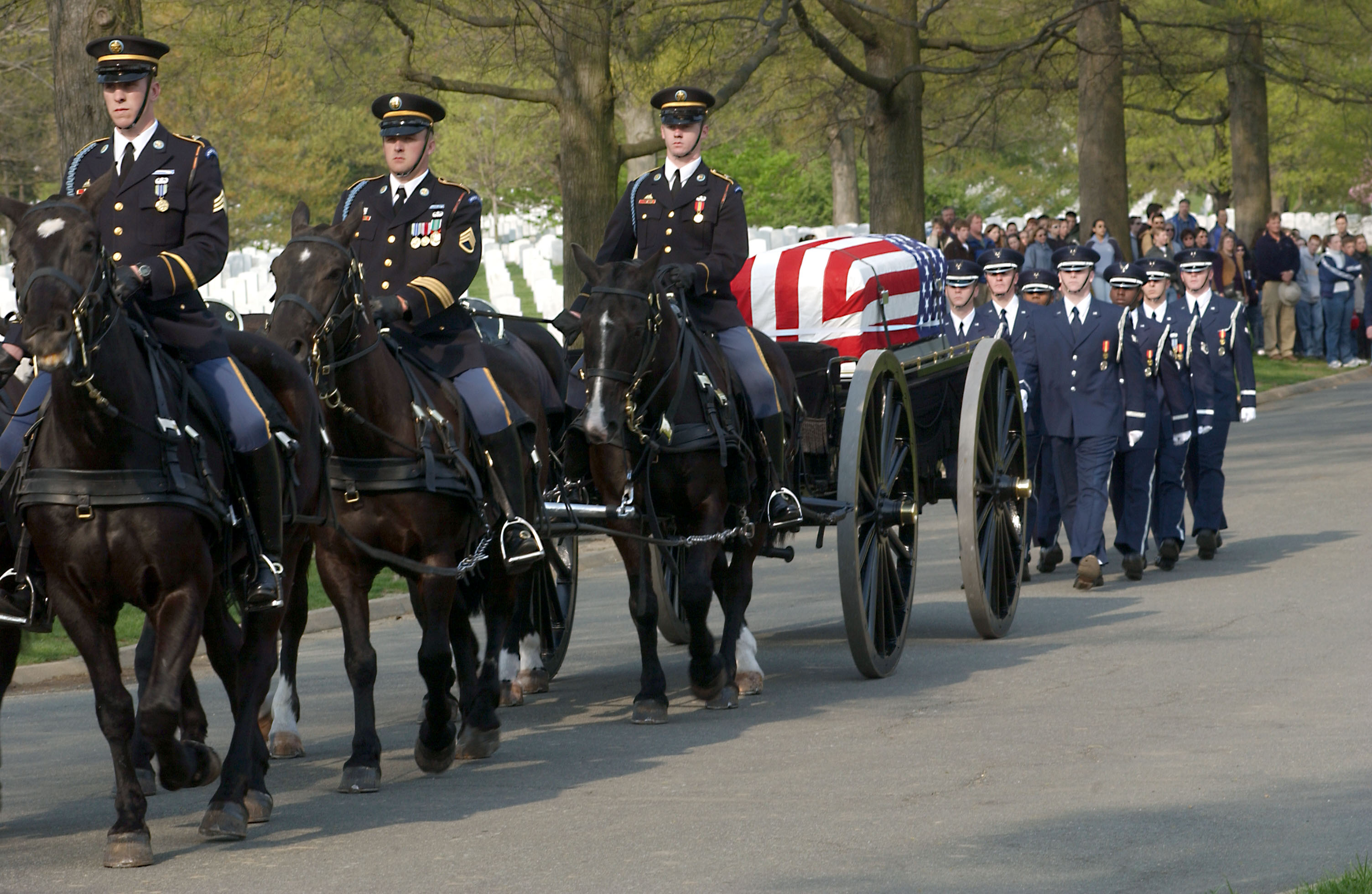 The U.S. Air Force Honor Guard marches behind the caisson carrying Maj. Gregory L. Stone at Arlington National Cemetery on April 17. Stone was the first Air Force casualty of Operation Iraqi Freedom. He was assigned to the Idaho Air National Guard's en:124th Wing. (U.S. Air Force photo by Senior Airman Jera T. Stubblefield)